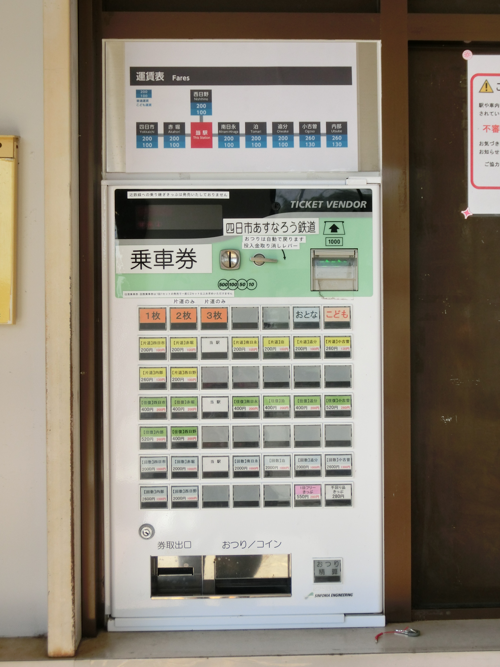 Yokkaichi Asunarou Railway ticket machine